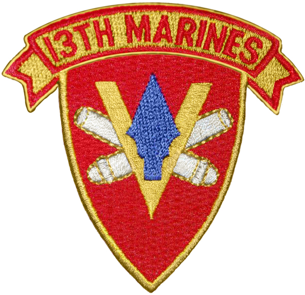 The insignia of the United States Marine Corps 5th Battalion 13th Marines.